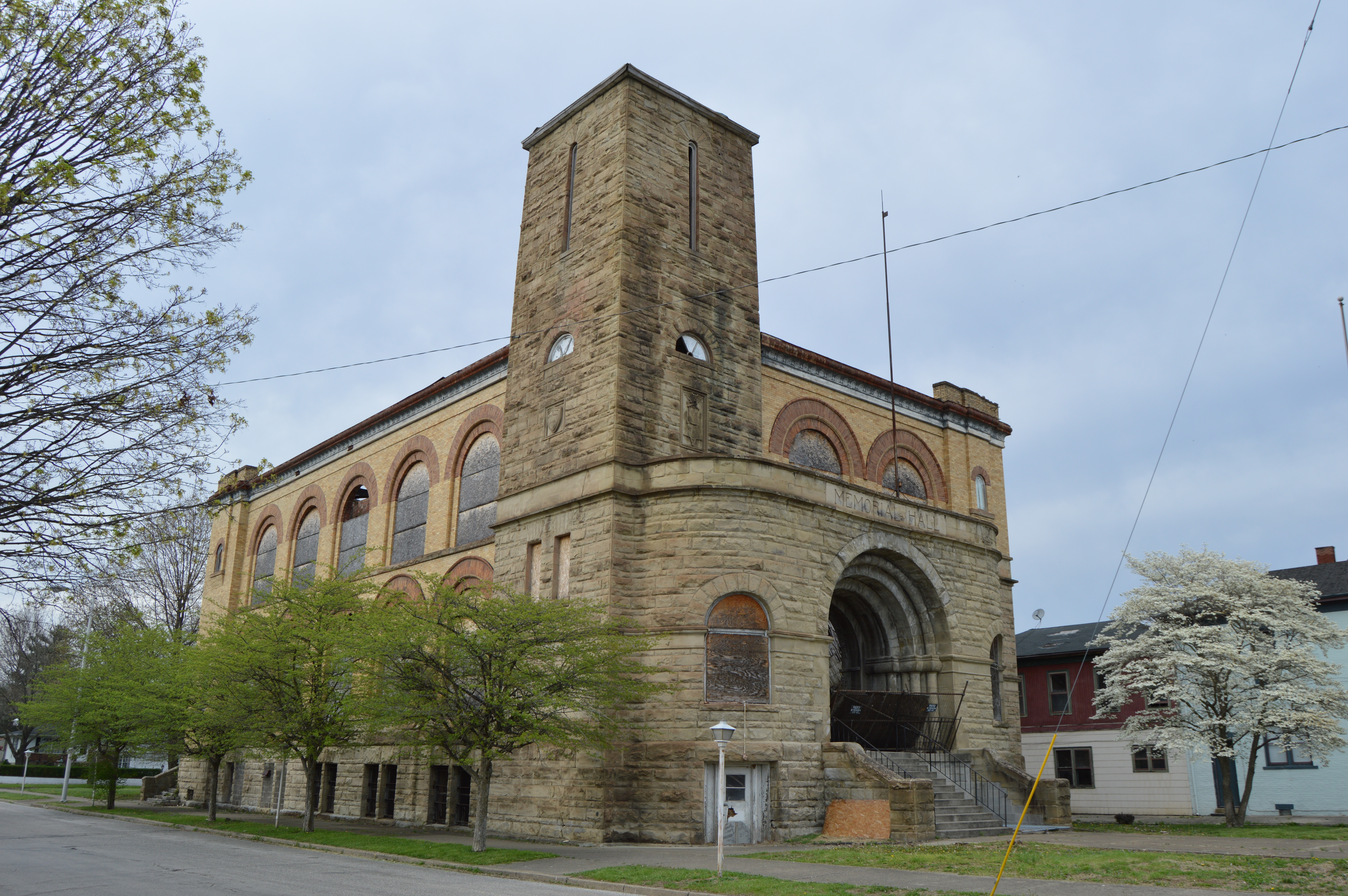 Front and western side of the GAR Memorial Hall, located at 401 Railroad Street in Ironton, Ohio, United States. Built in 1892, it is listed on the National Register of Historic Places. Through the main entrance, one can slightly see the interior: the roof has collapsed, and most or all windows are gone. As I was taking this picture, a local resident informed me that the hall was soon to be demolished in the interests of public safety.